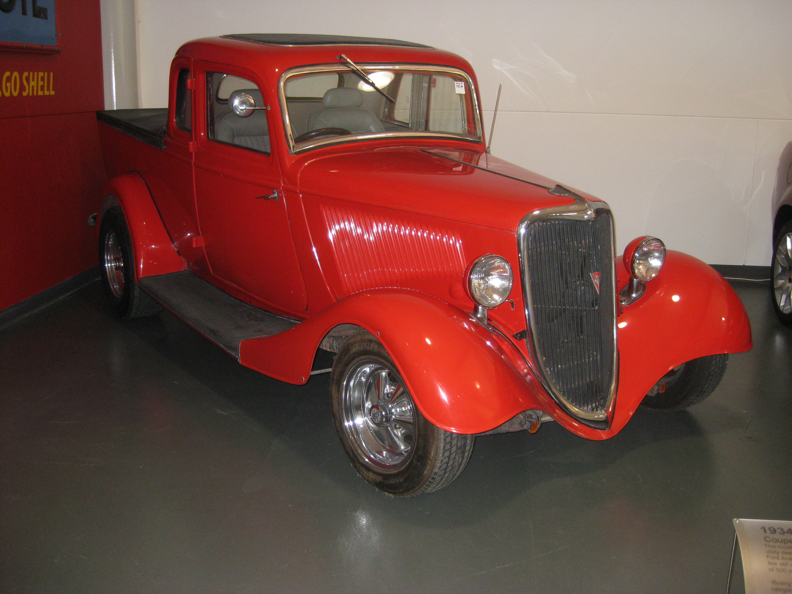 1934 Ford Coupe Utility, as displayed at the National Motor Museum at Birdwood in South Australia. This example has been fitted with modern wheels and the front bumper has been removed.